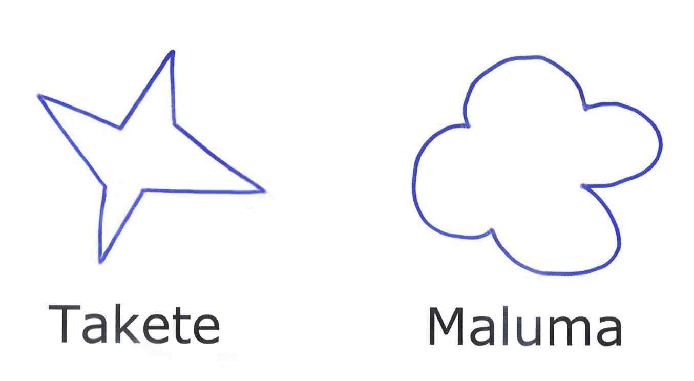 Maluma and Takete, Experiment of Wolfgang Köhler 1929, Gestalt psychology